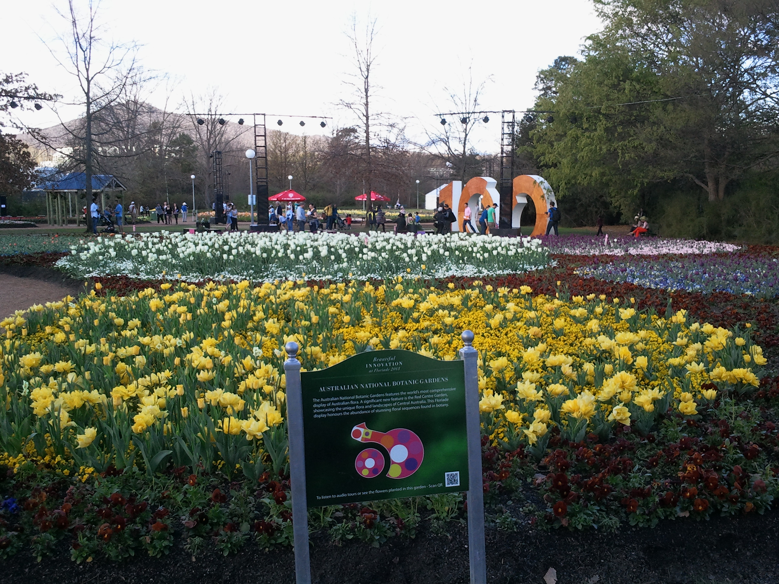 Canberra 100th Anniversary symbol and garden beds